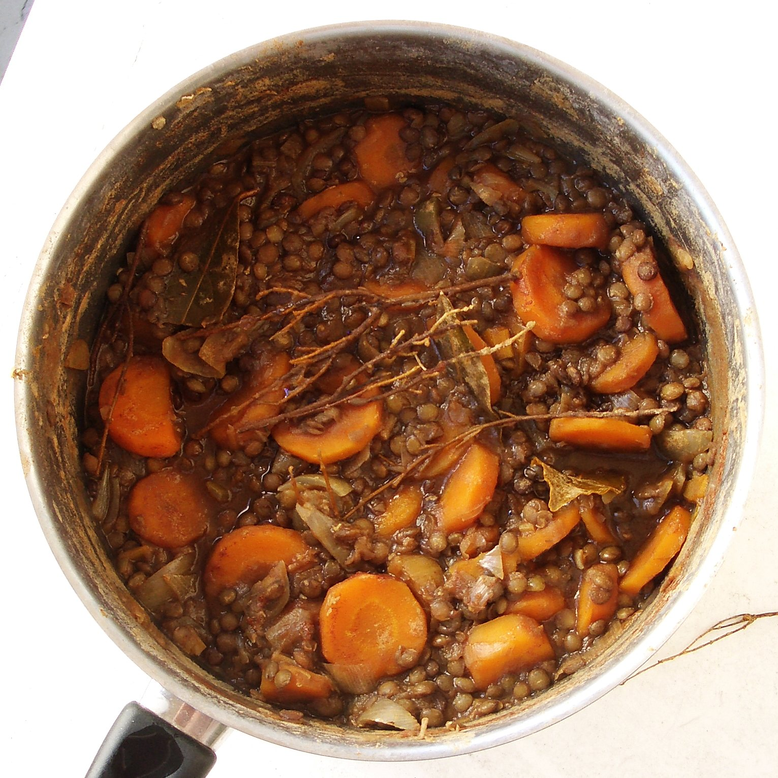 A stew with lentils, carrots, onions and leeks, seasoned with thyme and bay leaves. It also contains tomato paste and salt.